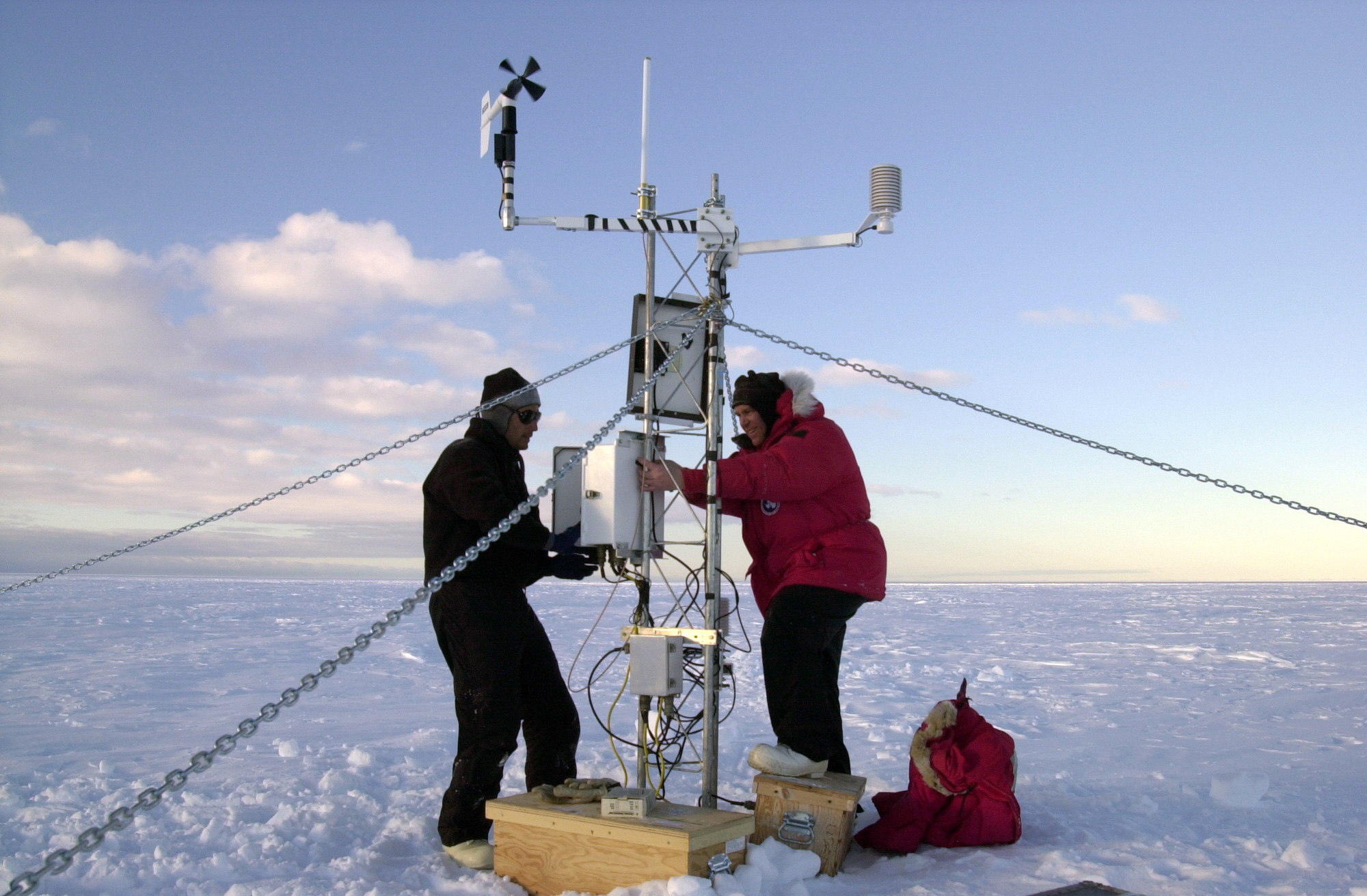 Researchers from the University of Chicago and the University of Wisconsin install weather and Global Positioning System instruments on Iceberg B-15A. It's the first time an iceberg has been monitored like this, and the data will allow an unprecedented understanding of how giant bergs make their way through the waters of Antarctica and beyond.